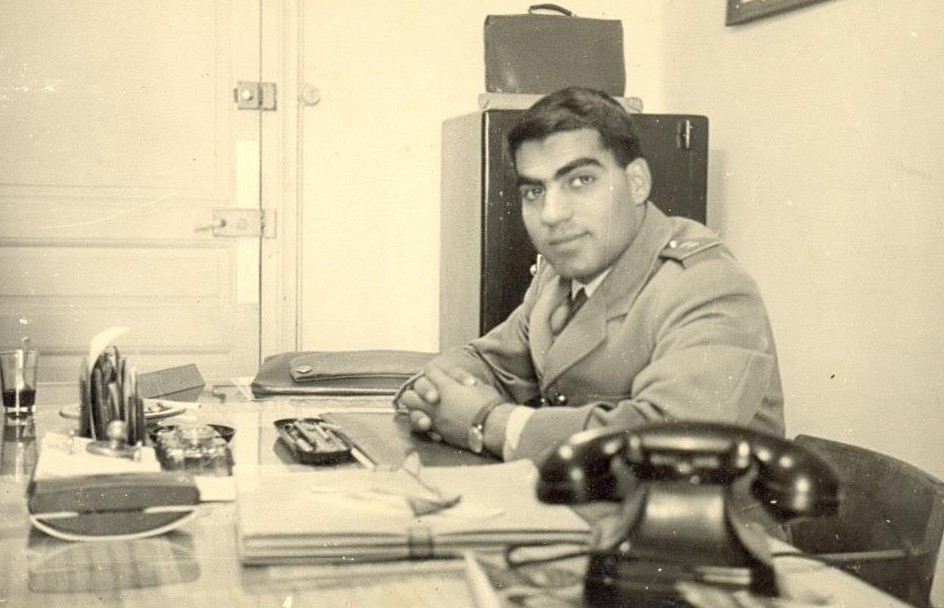 Young Tunisian army officer Zine Abidine Ben Ali